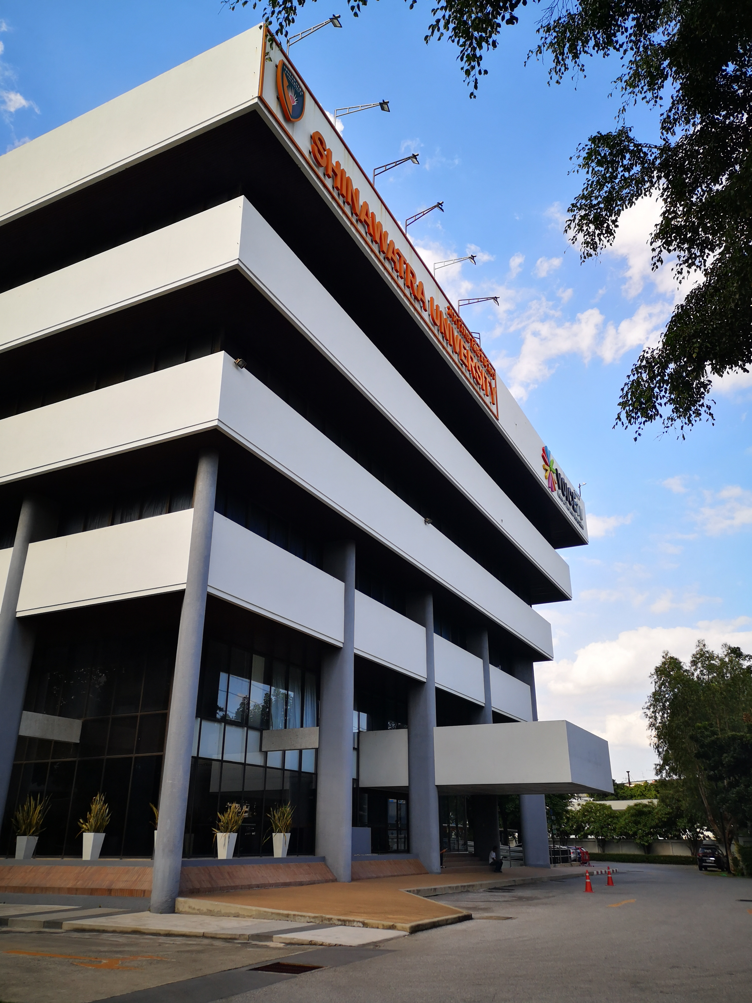 Office building of Voice TV